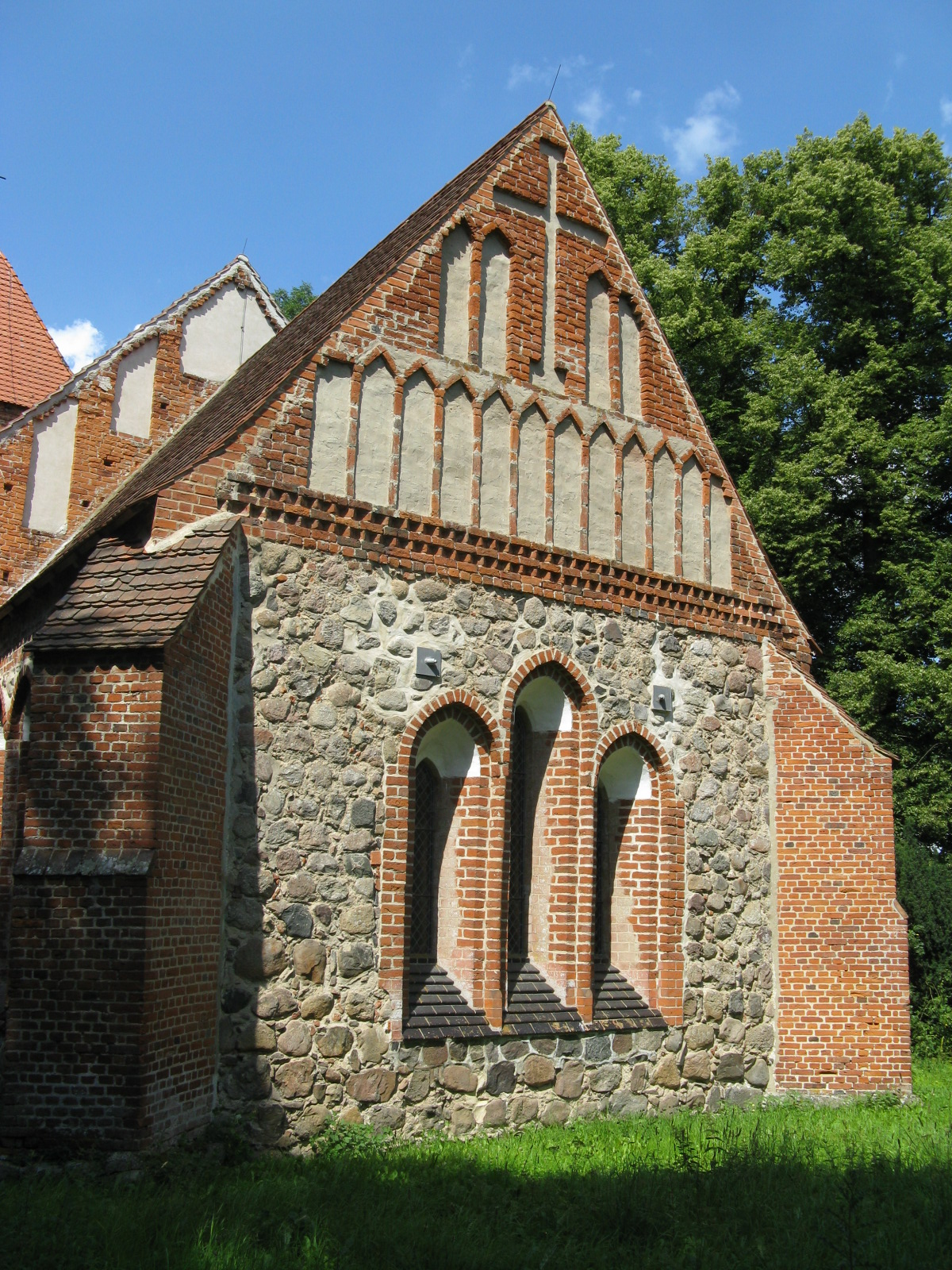 Church in Kirch Kogel, disctrict Güstrow, Mecklenburg-Vorpommern, Germany